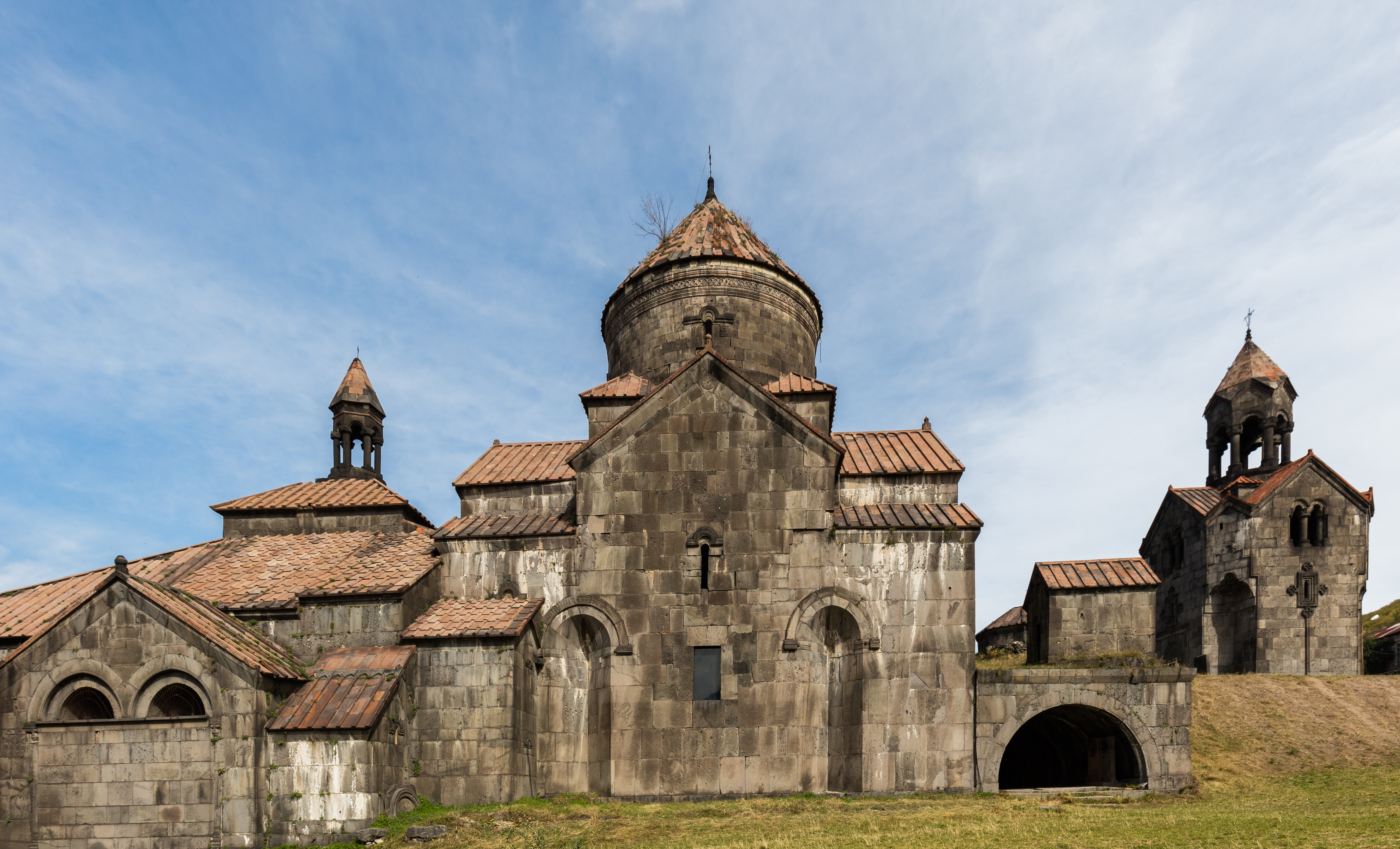 Haghpat Monastery, Armenia